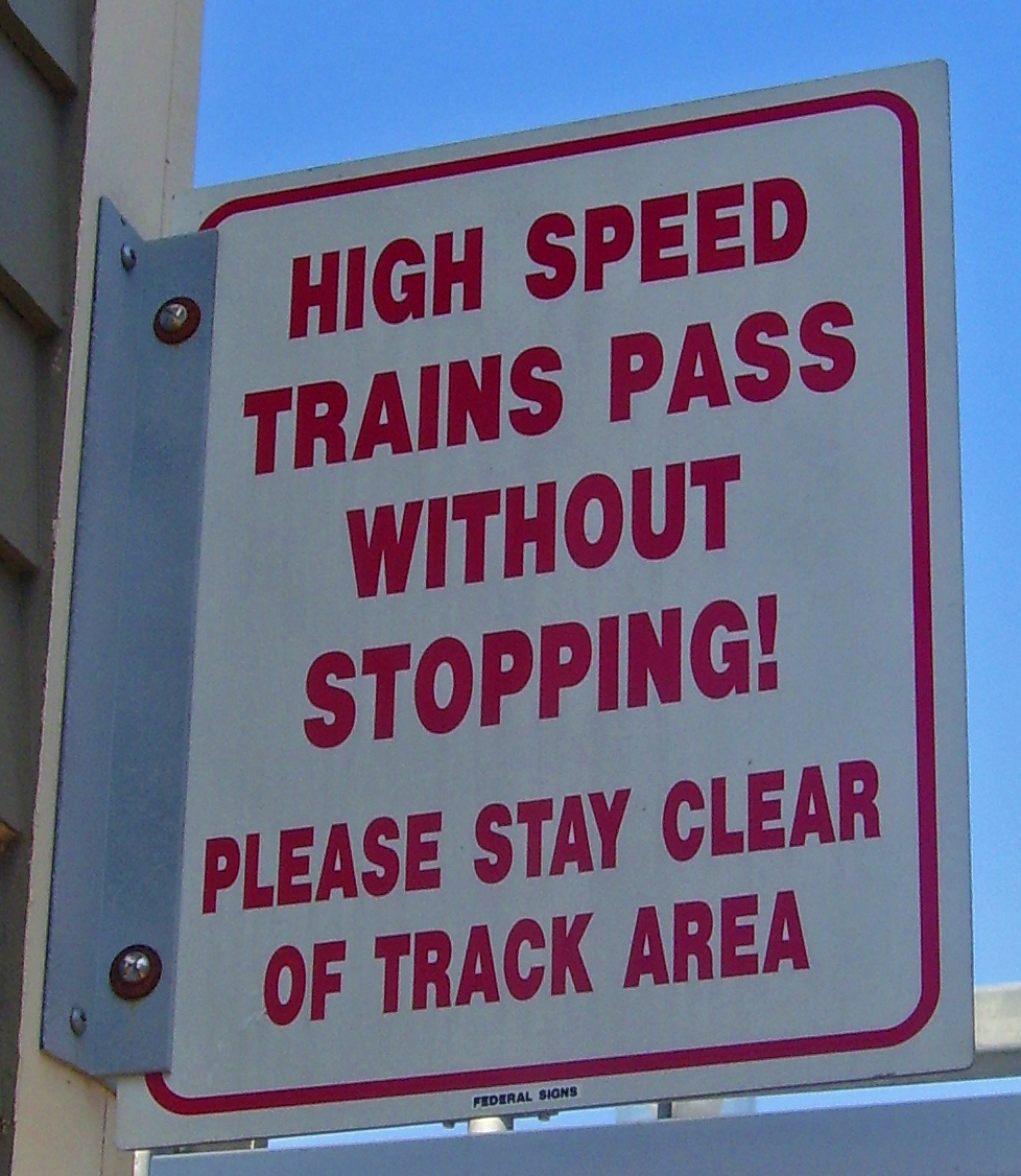 Sign warning that Acela Express high-speed trains pass through Kingston, RI, train station at speeds of up to 150 mph (240 km/h) without stopping.